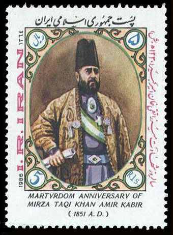 Amirkabir stamp